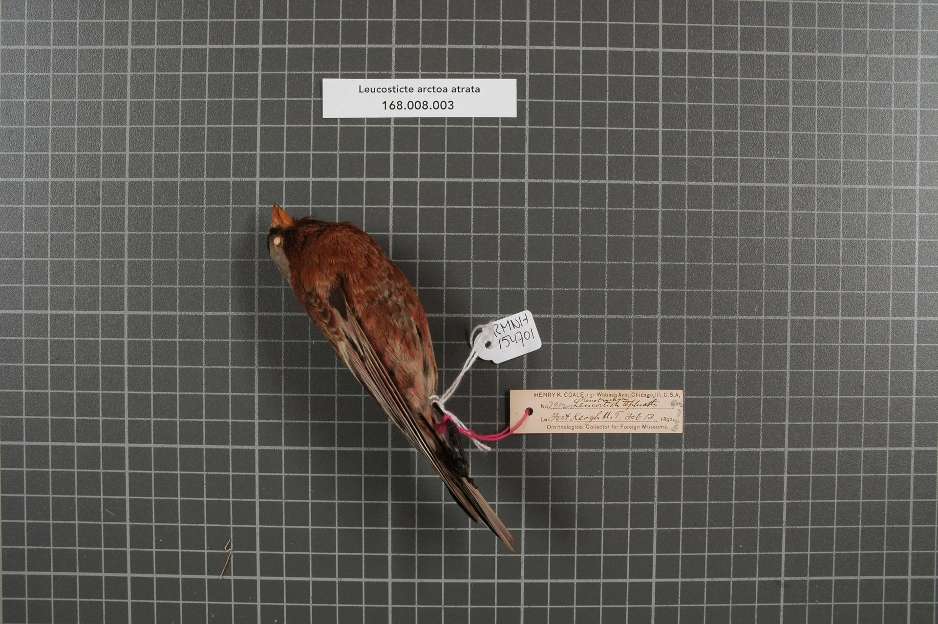 Leucosticte arctoa atrata Ridgway, 1874